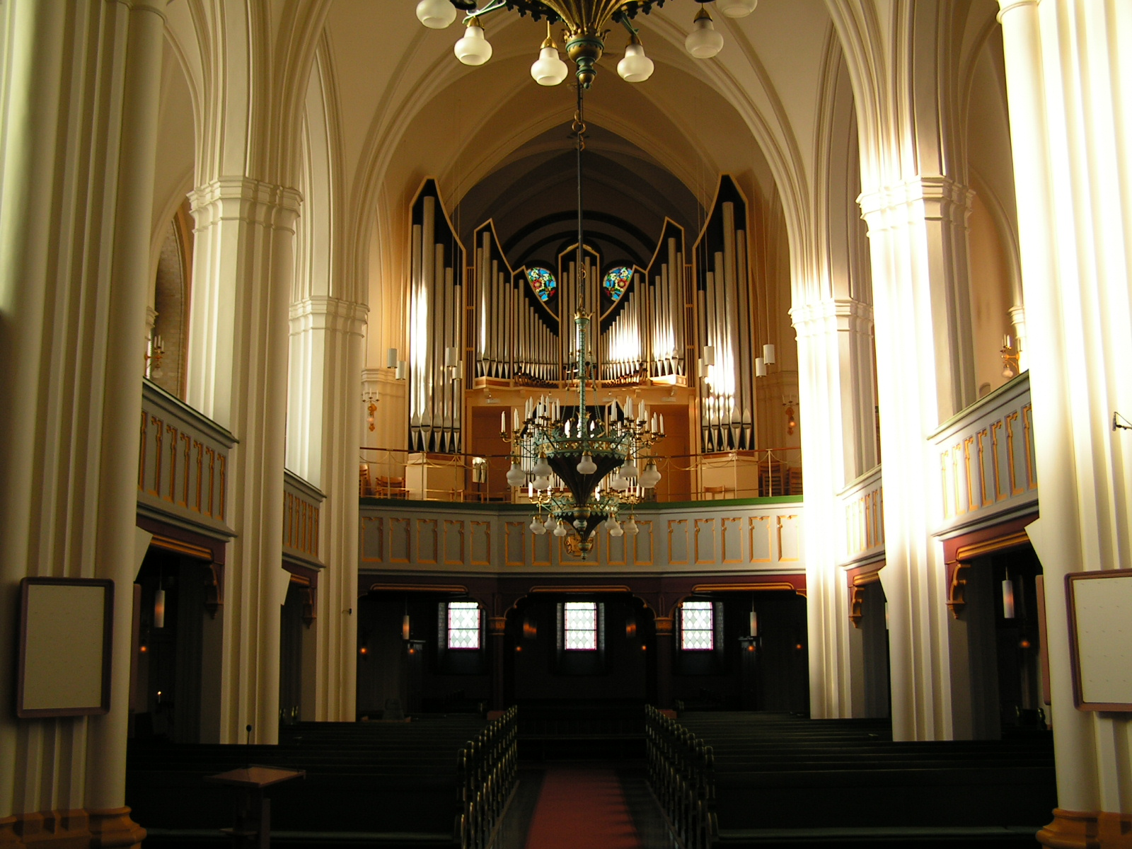 Church of Umeå, Sweden, Pipe organ